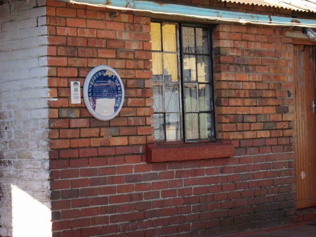 James Mpanza House with blue plaque and Joburgpedia Plaque